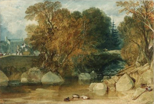 Ivy Bridge.